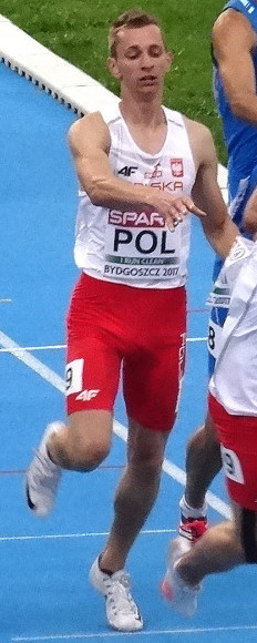 2017 European Athletics U23 Championships, 4x400m relay men final